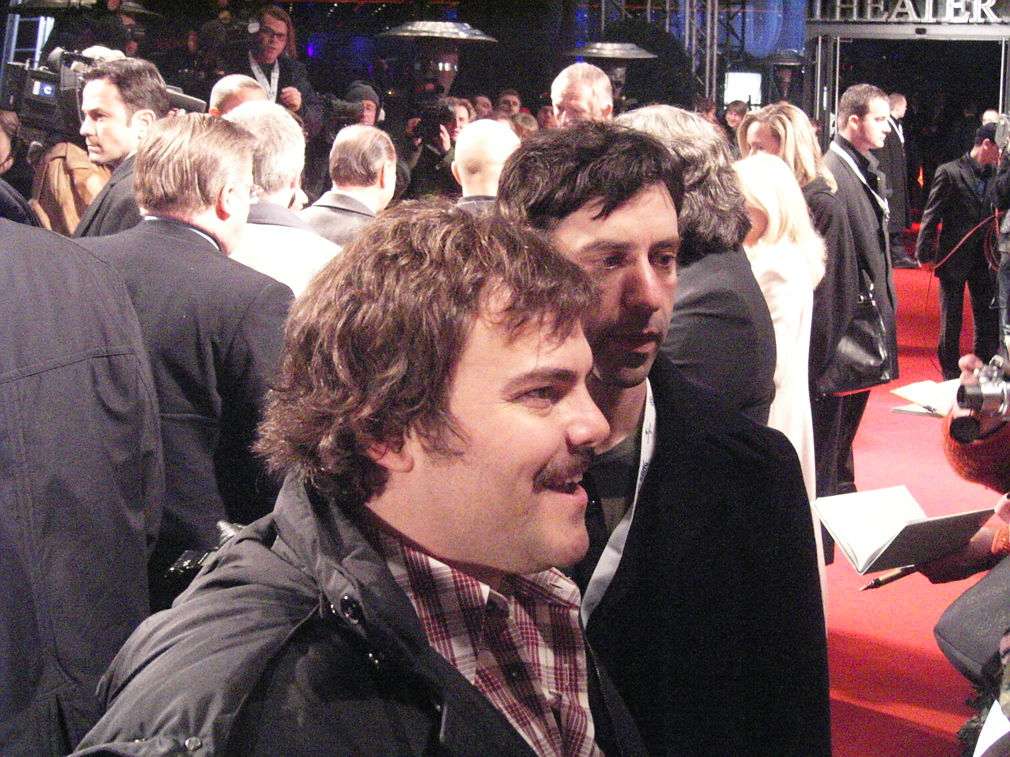 Actor Jack Black at "King Kong" Premiere in Berlin/Germany